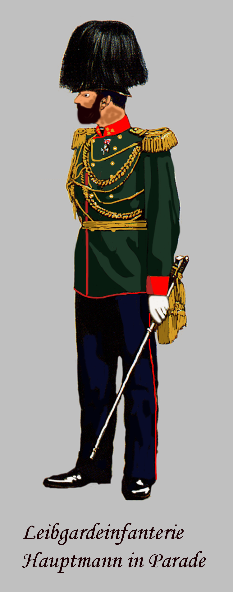 Captain of the Leibgarde-Infantry-Company of the Austro-Hungarian Army in dress uniform.